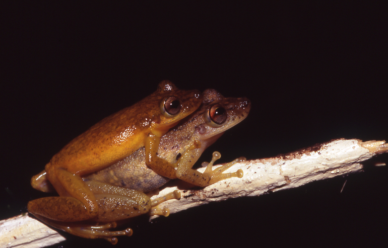 Scinax ruber